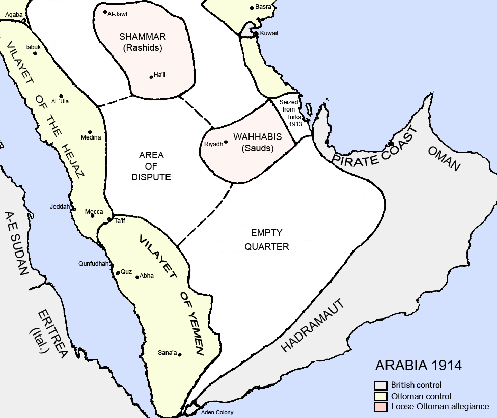 Political borders of the Arabian Peninsula in 1914. Source: Collapse of Empire: Ottoman Turks and the Arabs in the First World War, itself from King Husain and the Kingdom of Hejaz By Randall Baker .